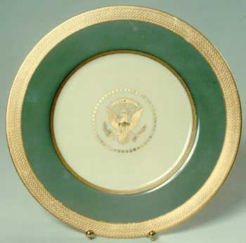 The Truman White House china service, made by Lenox, Inc., Trenton, New Jersey, 1951.